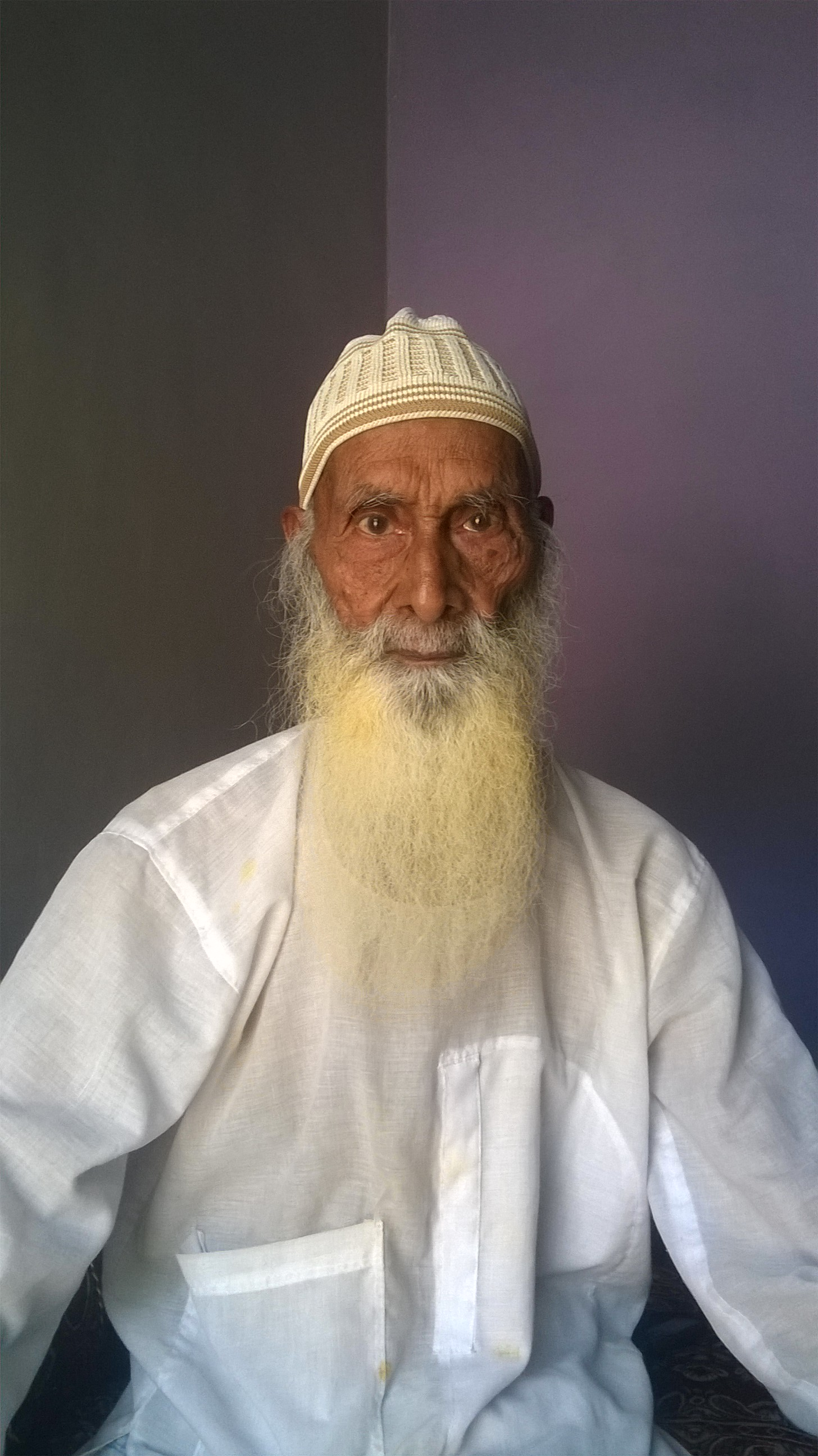 Sufi Abu Mohammad Wasil Bahraichi is Legendry Urdu Poet of tasawwuf and Gazal.His Age 94 years